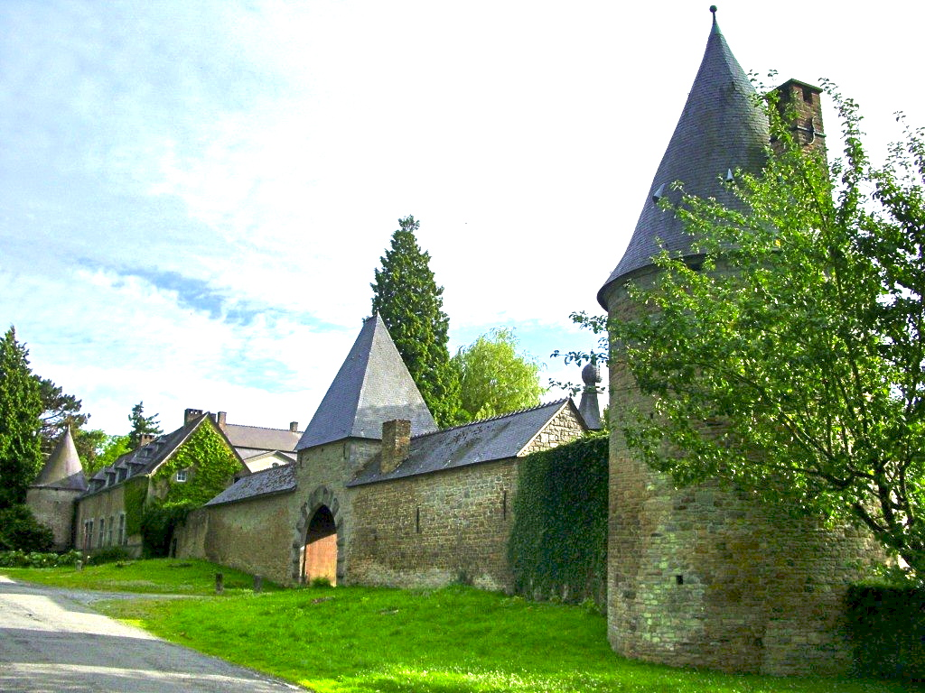 The castle of Évrehailles.